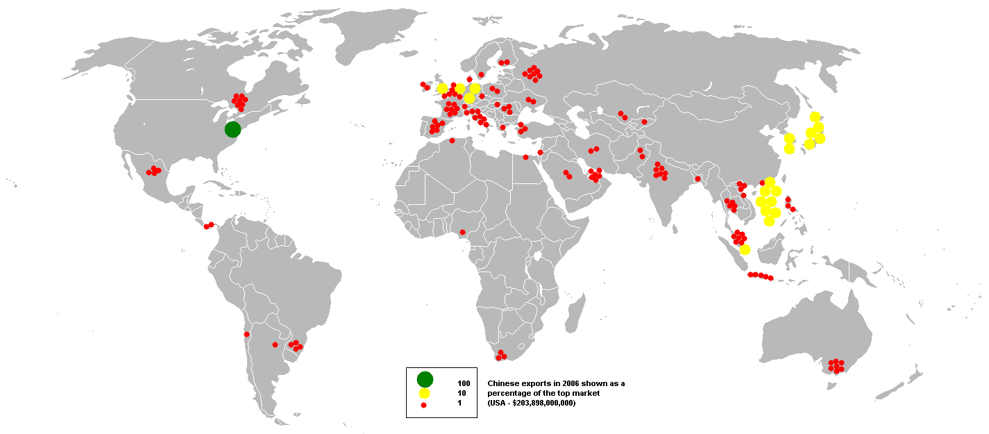 This bubble map shows the global distribution of Chinese exports in 2006 as a percentage of the top market (USA - $203,898,000,000). This map is consistent with incomplete set of data too as long as the top producer is known. It resolves the accessibility issues faced by colour-coded maps that may not be properly rendered in old computer screens. Data was extracted on 30th September 2007 from Based on :Image:BlankMap-World.png